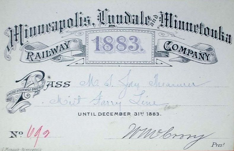 1883 Pass of Minneapolis, Lyndale and Minnetonka Railway Company. Pass is signed by the railroad president & was given to the treasurer of the Milt Harry Line